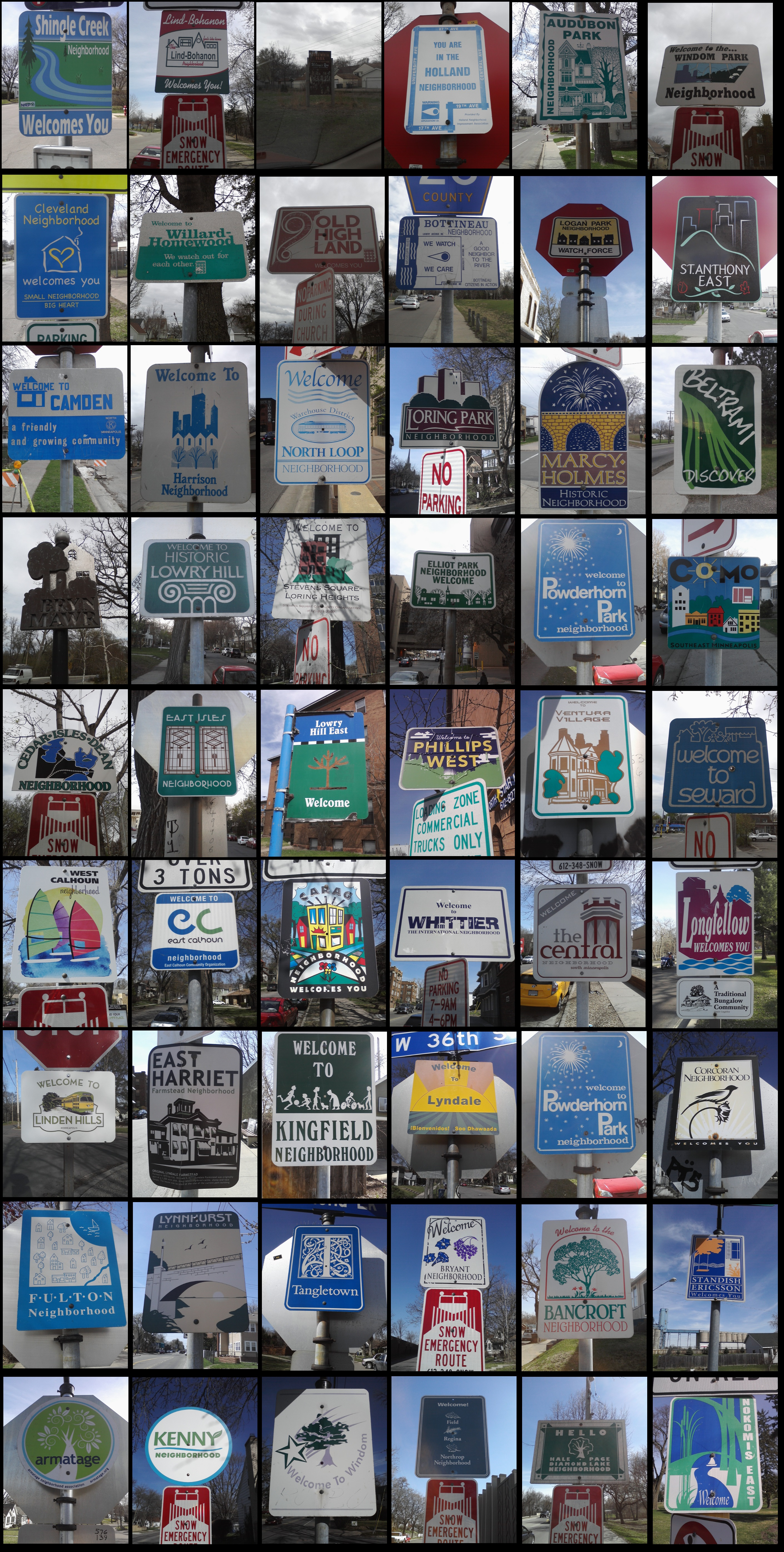 Minneapolis Neighborhood Markers. Most, but not all Minneapolis neighborhoods have markers at prominent locations on their boundaries.